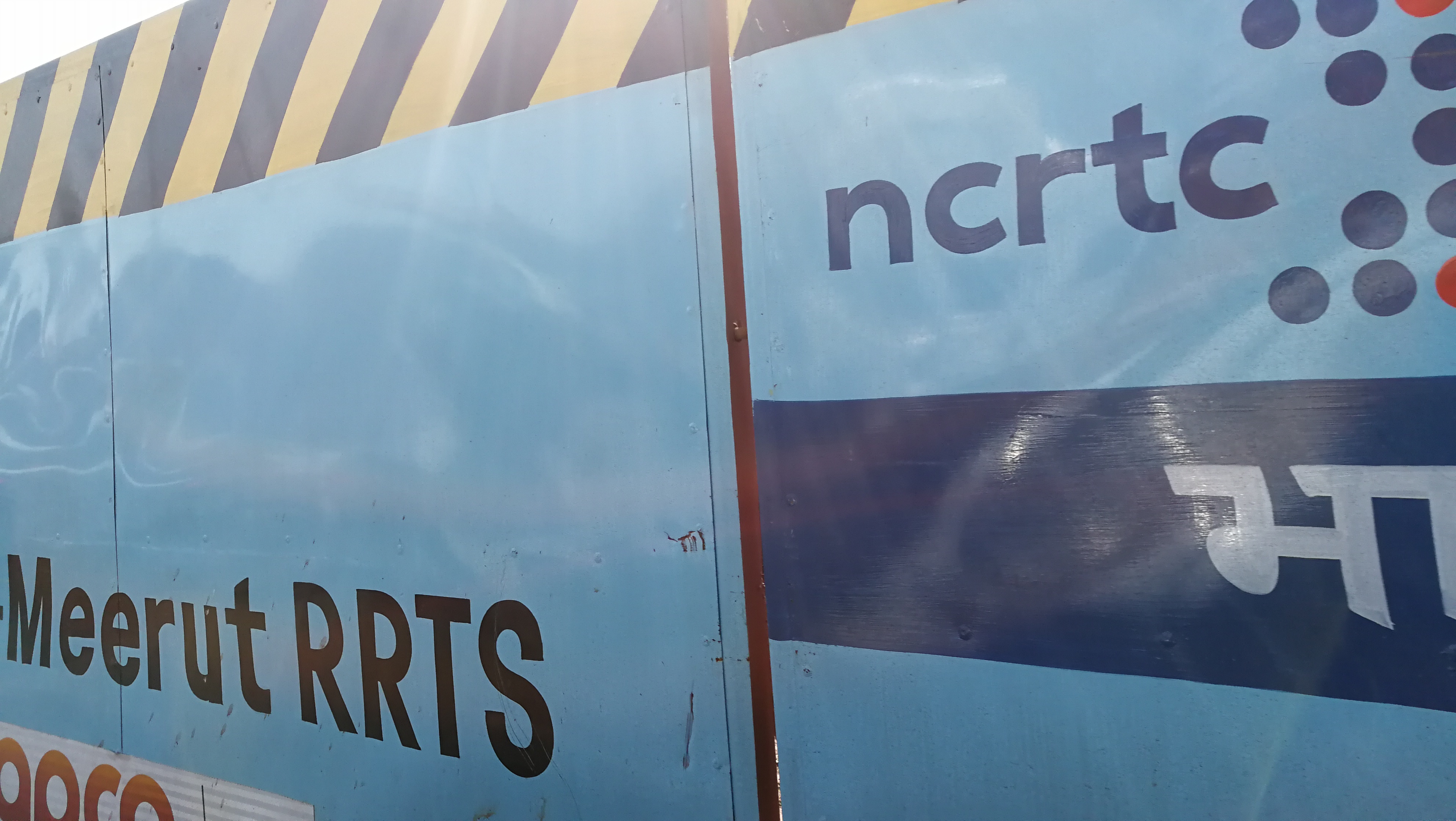 delhi meerut rrts work started